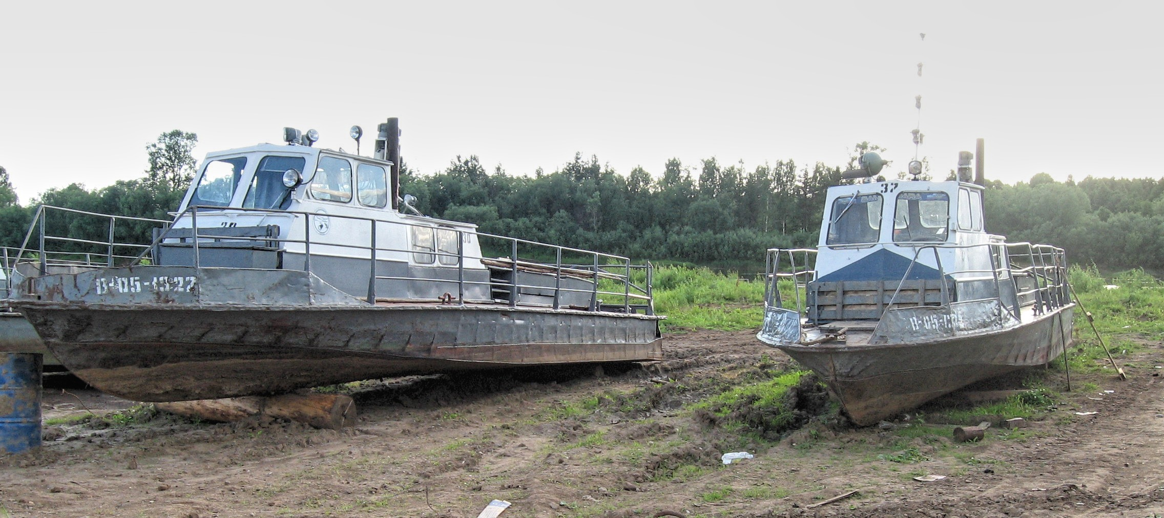 Cutter ks100